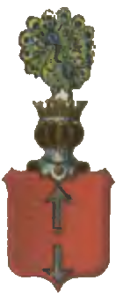 Coat of arms Bogoria from Die polnischen Stammwappen by Emilian Szeliga-Żernicki